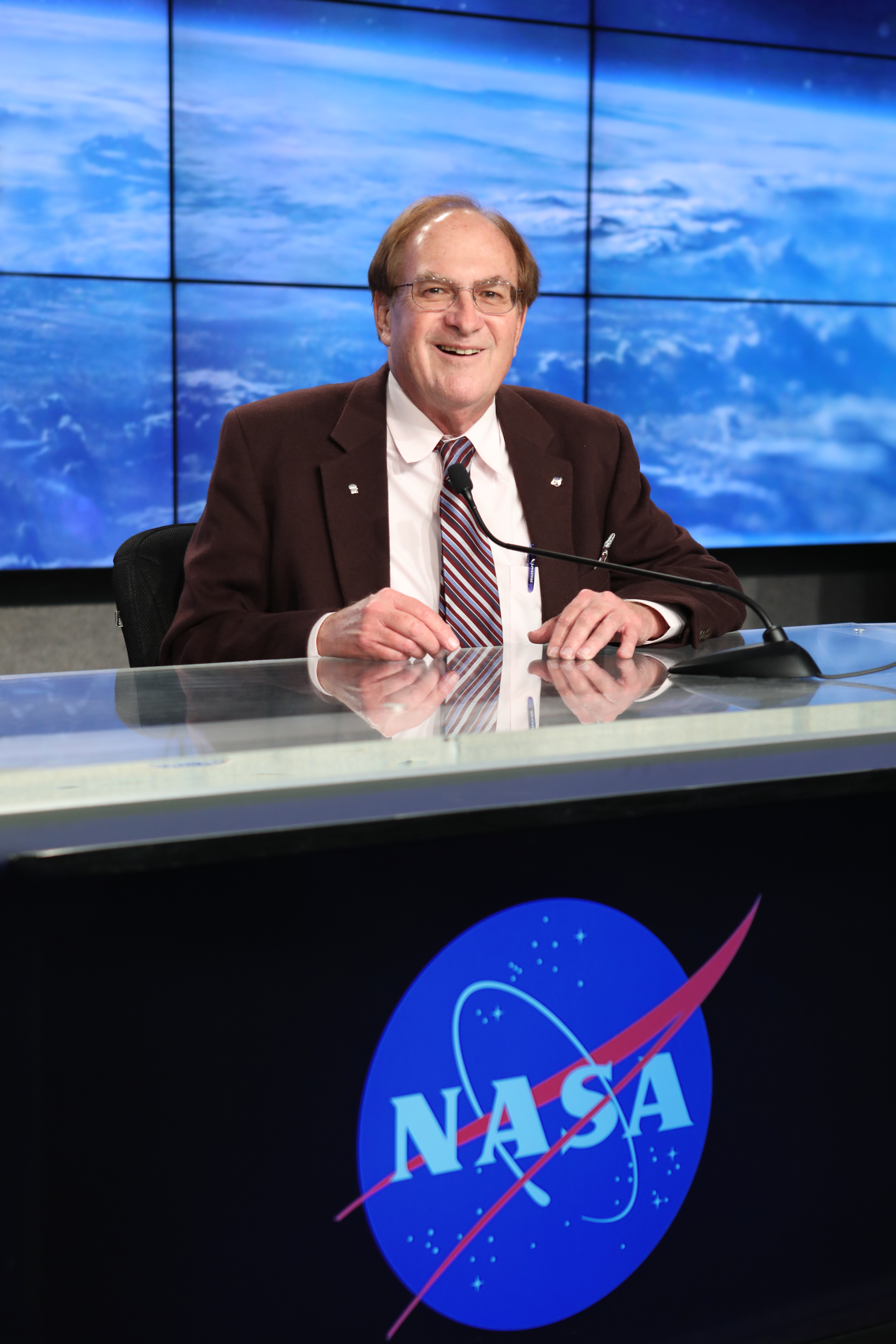 Orbital ATK CRS-7 Post Launch News Conference inside the KSCTV Auditorium.